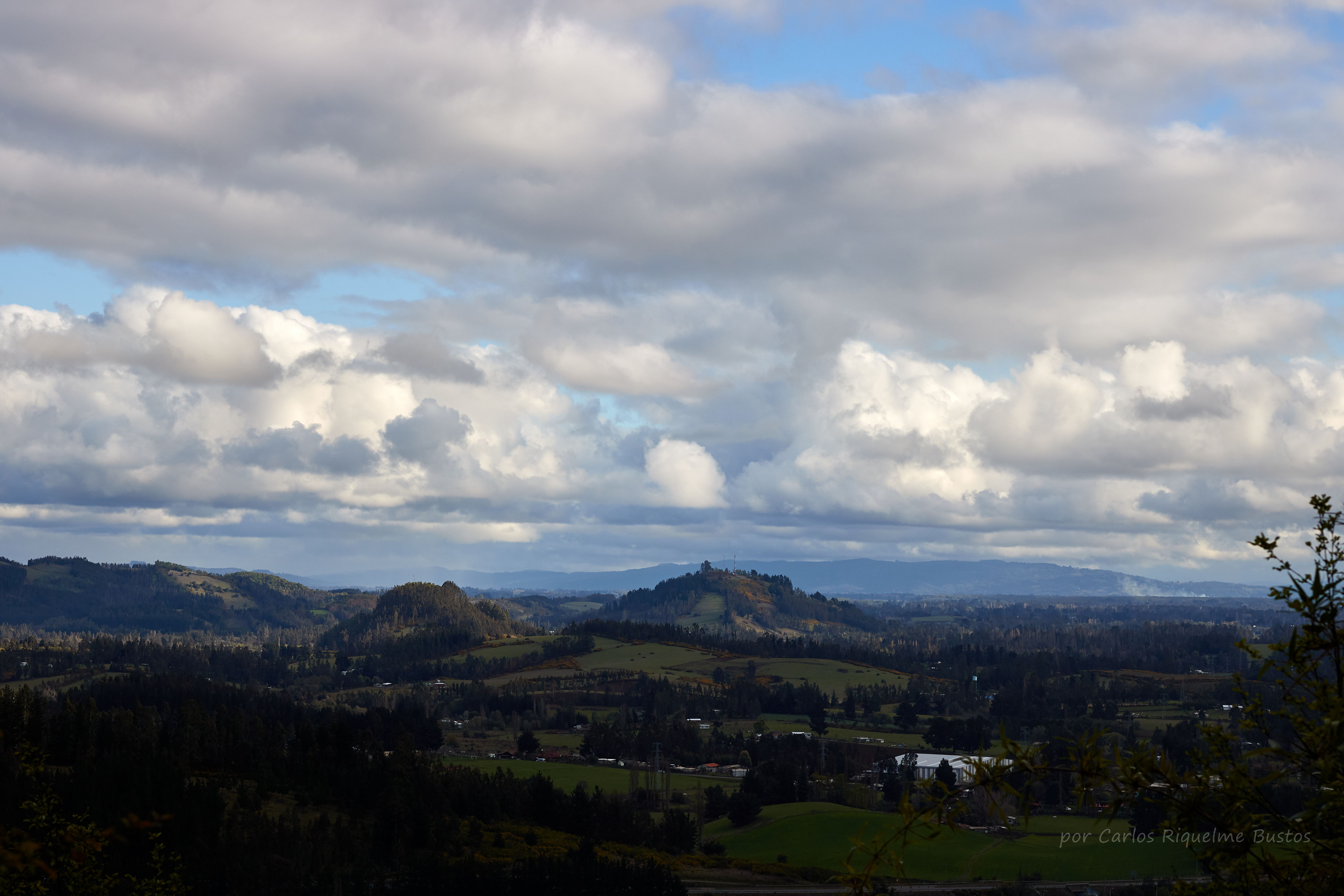 Desde la cara oriente del cerro Conunhuenu se puede apreciar el sector Huichahue de nuestra comuna.